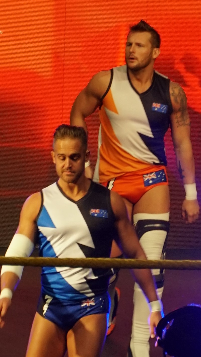 Nick Miller (front) and Shane Thorne at WWE Axxess in New Orleans.